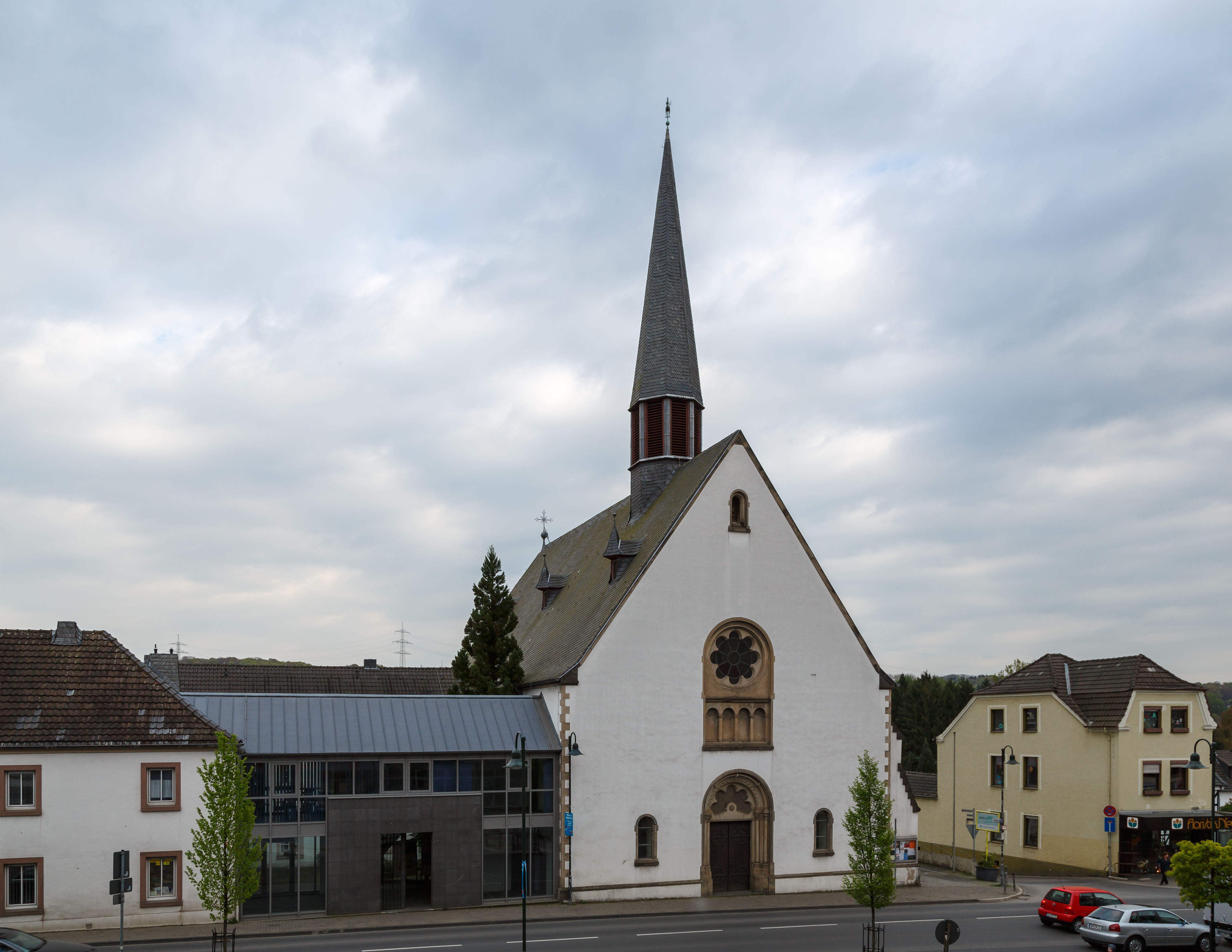 Rösrath, Listed monument number 42, Hauptstrasse 62: Pfarrkirche St. Nikolaus von Tolentino with the main gate opening to the west side. This is a photograph of an architectural monument.